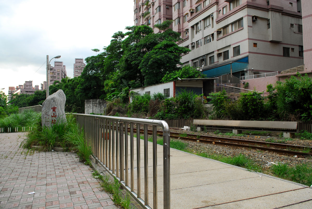 Baushan Station is a small station on Linkou Line. It located in the middle of a new developed residential area.